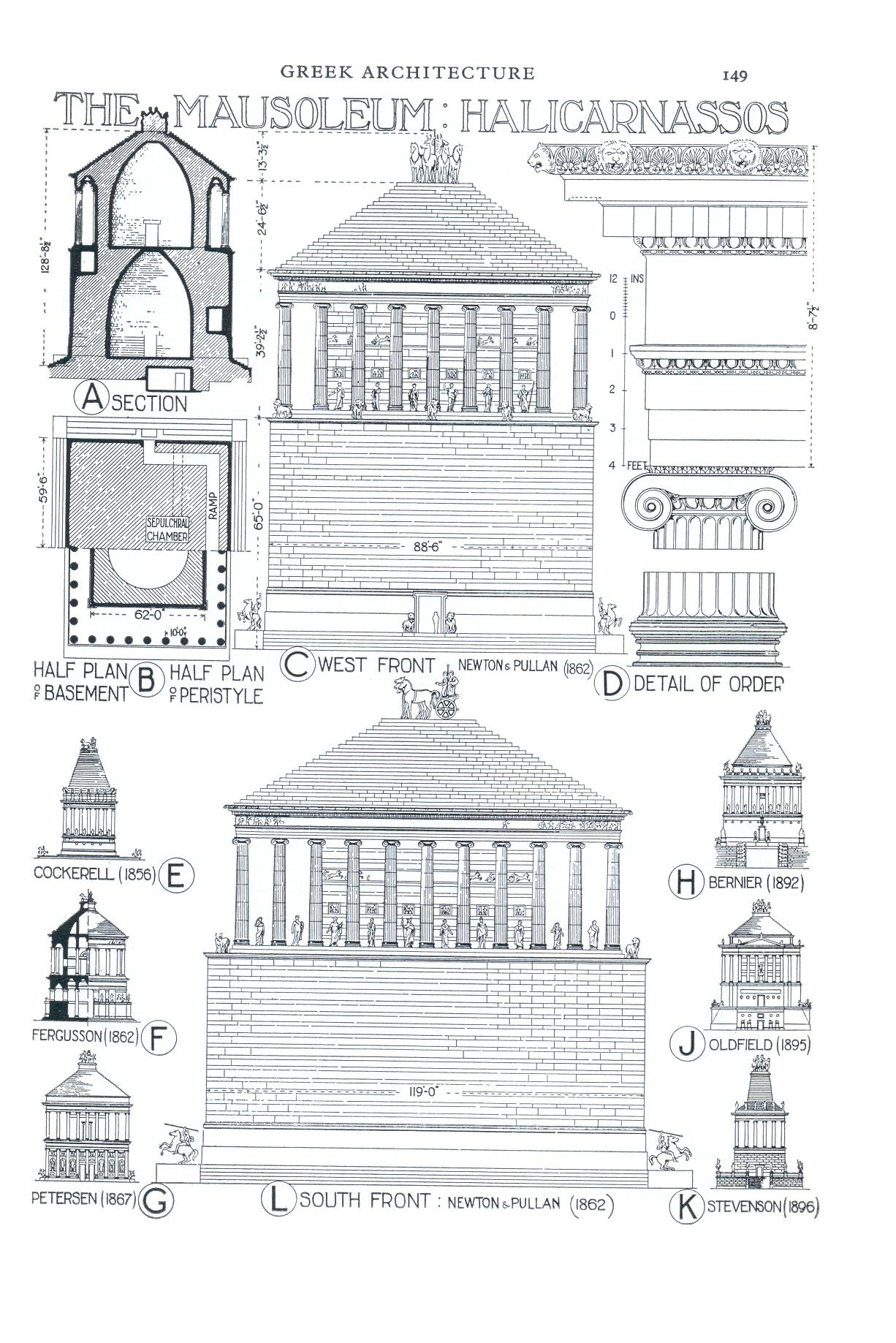 Mausoleum - Halicarnassos, Greek Architecture, History of Architecture, pg 149